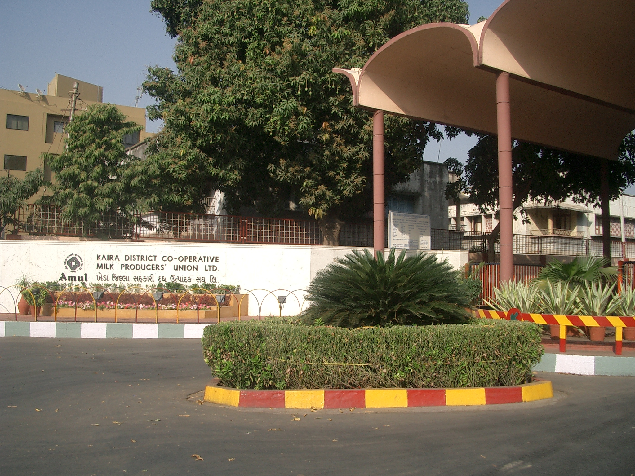 Entrance of AMUL factory, Anand